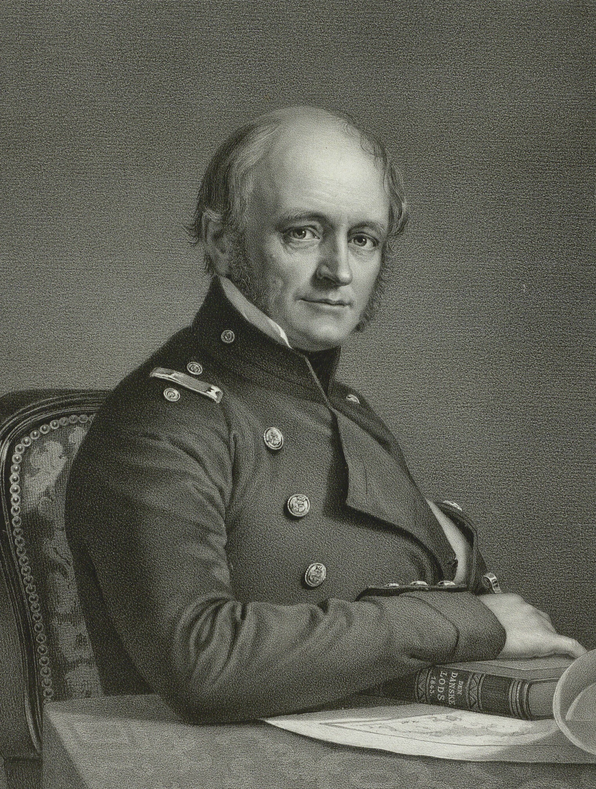 Christian Christopher Zahrtmann (1793-1853), Danish Vice Admiral and Minister of the Royal Navy